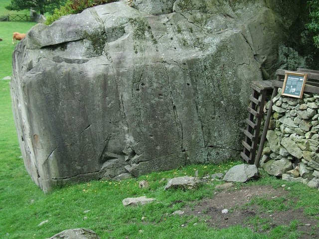 Langdale Boulders (Rock Art Panel) Neolithic symbols carved on rock face.